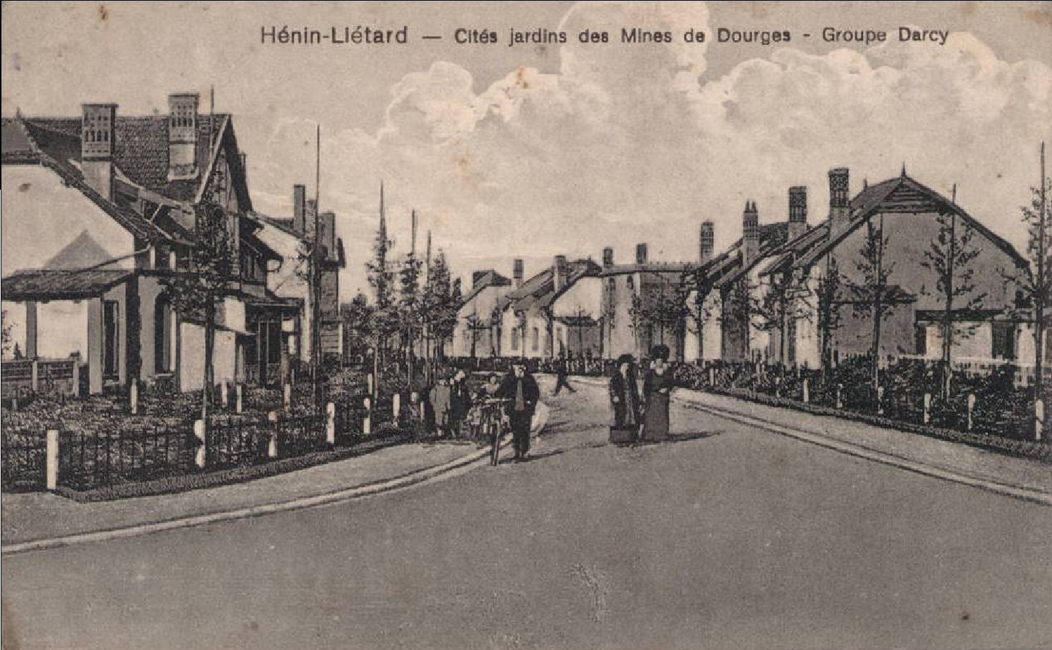 Compagnie des mines de Dourges, Pas-de-Calais, France.